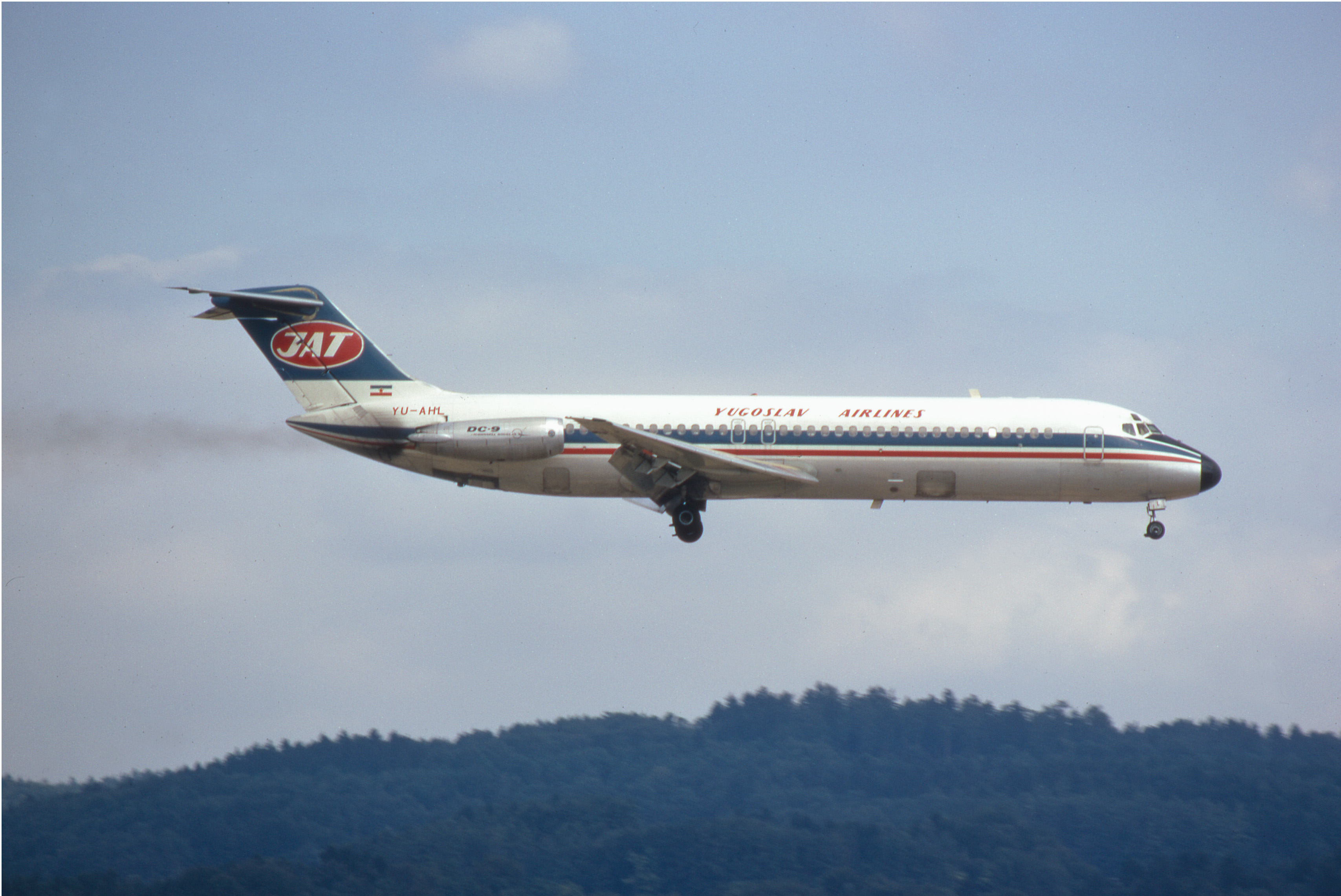 Dc-9-323 YU-AHL of JKAT airlines at Zurich in 1972